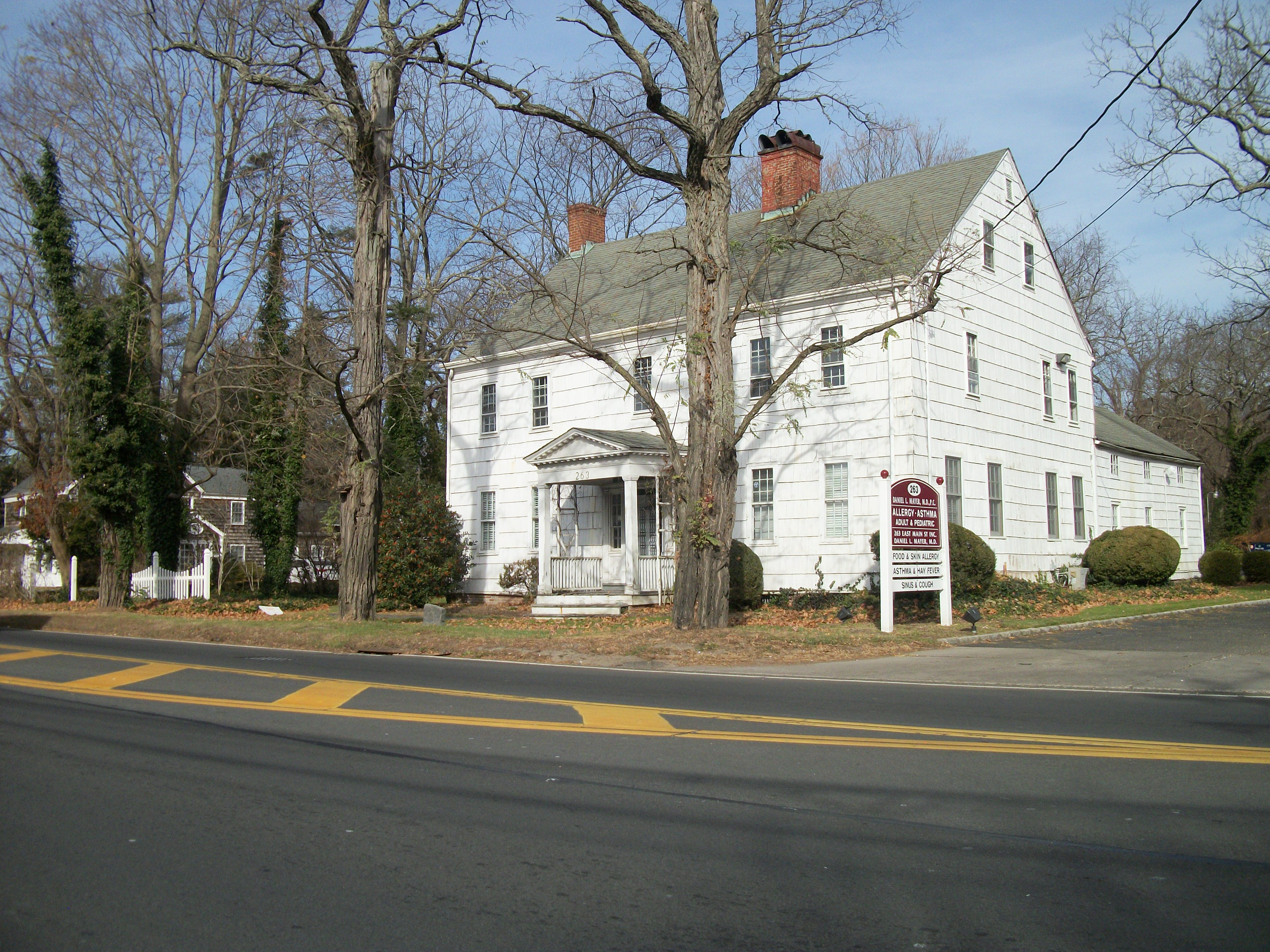 My third attempt to capture the historic Halliock Inn on New York State Route 25 in the Village of the Branch, New York. A previous attempt to capture the former colonial-era tavern from June 2010 failed miserably.